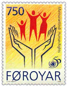 Year of Human rights. Stamp FR 332 of Postverk Føroya, Faroe Islands Date of issue: 18 May 1998